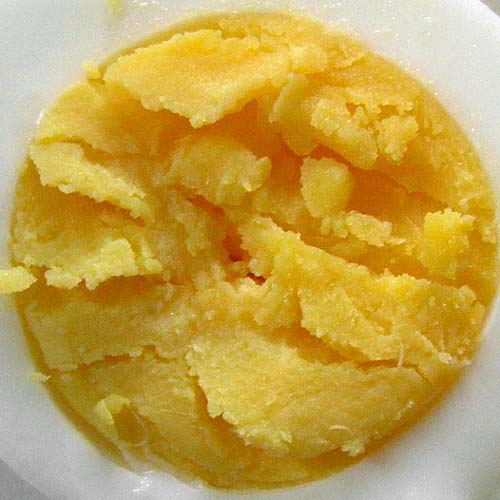 Closeup of the cooked yolk in a hard-boiled egg.